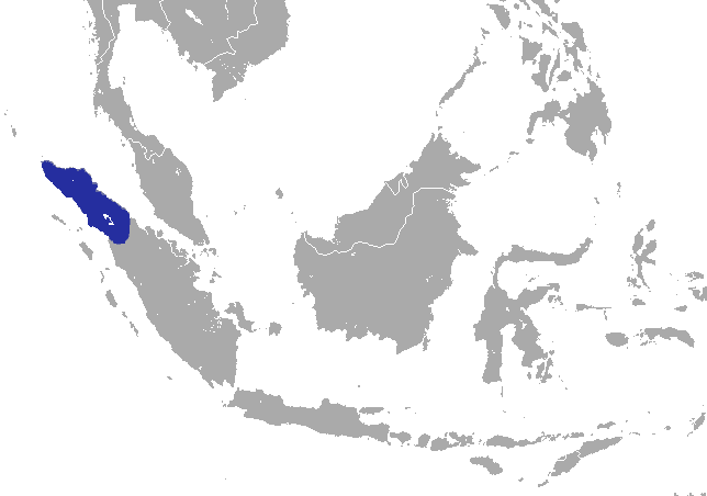 Hutan Shrew (Crocidura hutanis) range